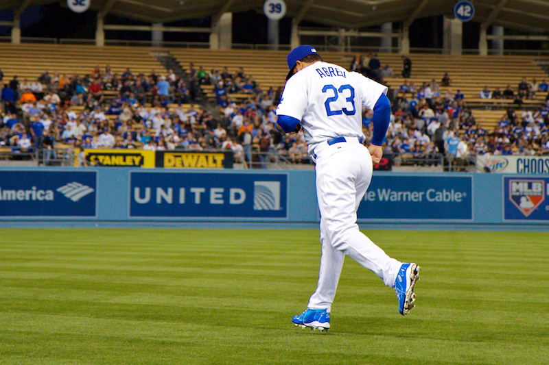 Bobby Abreu with the LA Dodgers